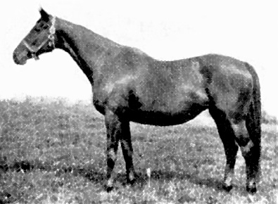 Mahubah (1910-1931) was an American Thoroughbred racemare.